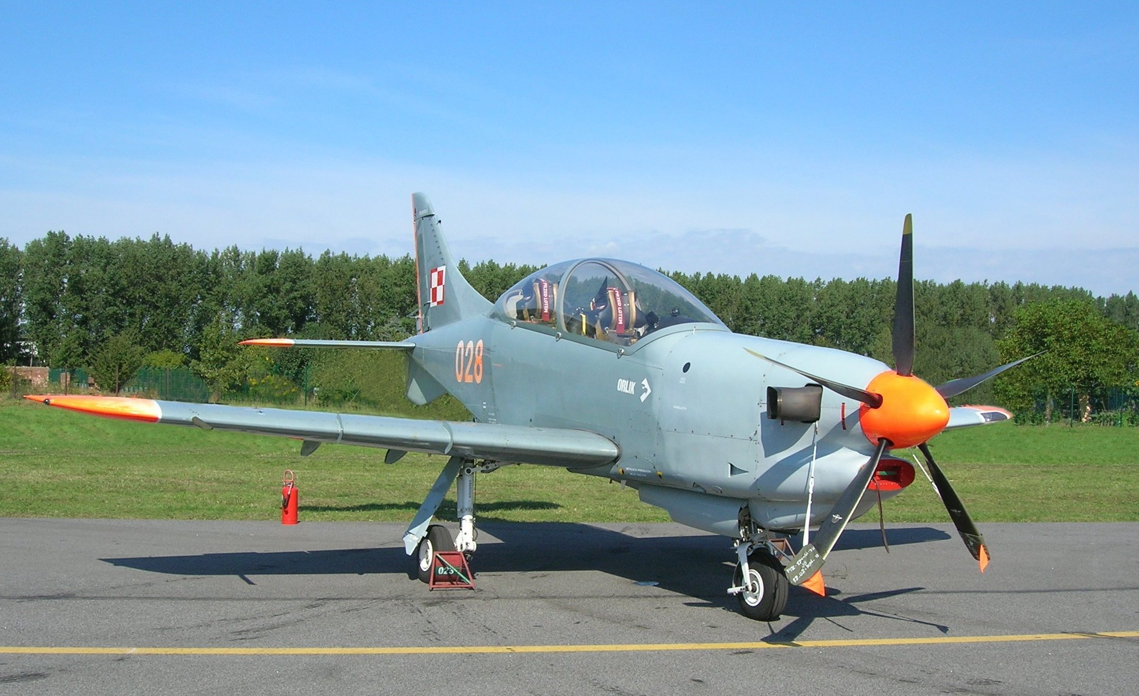 Copyright © 2005 User:Voytek S PZL-130 Orlik, during Airshow 2005 in Radom, Poland.